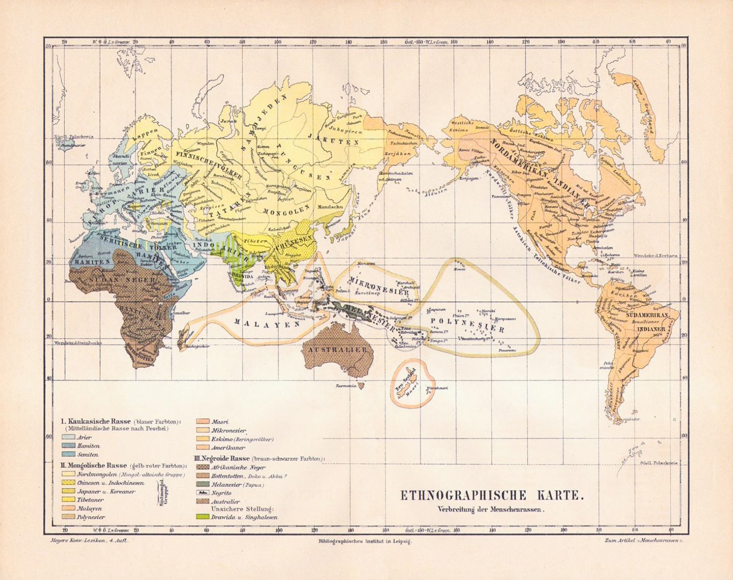 The 4th edition of Meyers Konversationslexikon (Leipzig, 1885–1890) shows the Caucasian race (in various shades of grayish blue-green) as comprising Aryans,Semites, and Hamites. Aryans are further subdivided into European Aryans and Indo-Aryans (the term "Indo-Aryans" was then used to describe those now called "Indo-Iranians"). Caucasoid: Aryans Semitic Hamitic Negroid: African Negro Khoikhoi Melanesian Negrito Australoid Mongoloid: North Mongol Chinese & Indochinese Korean & Japanese Tibetan & Burmese Malay Polynesian Maori Micronesian Eskimo & Inuit American Uncertain: Dravida & Sinhalese